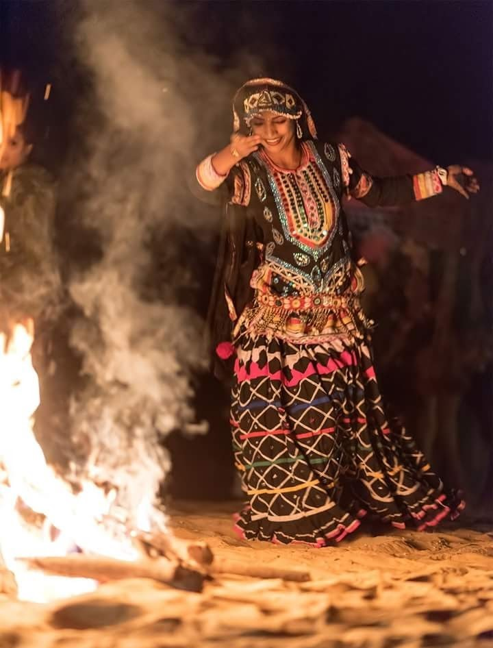 Show of fabulous Kalbeliya dance in cold desert nights with amazing Rajasthani delicious food. These kind of arrangement is common in Pushkar during camel fair. This photo has been taken in the country: India